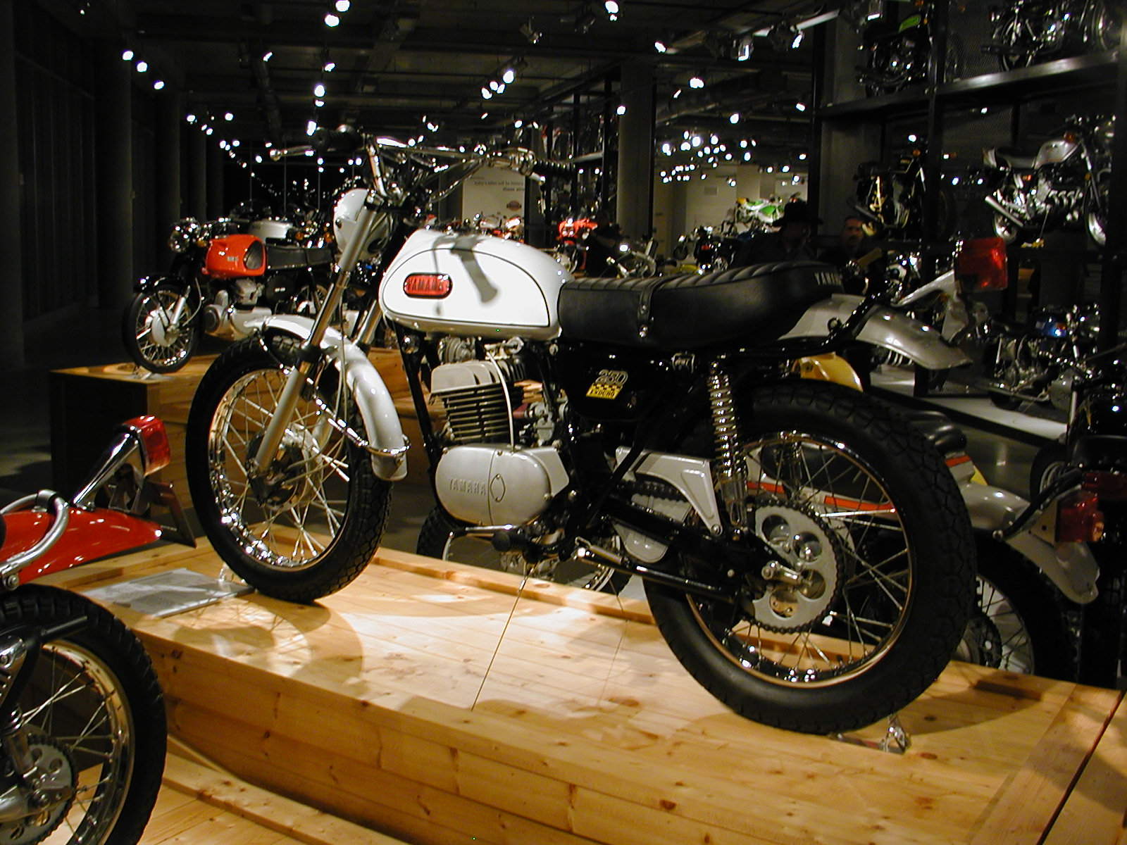 Barber Motorcycle Museum - Oct 22 2006 (118) Yamaha DT-1 250